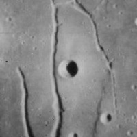 Liebig J crater (east of Liebig), on the moon.